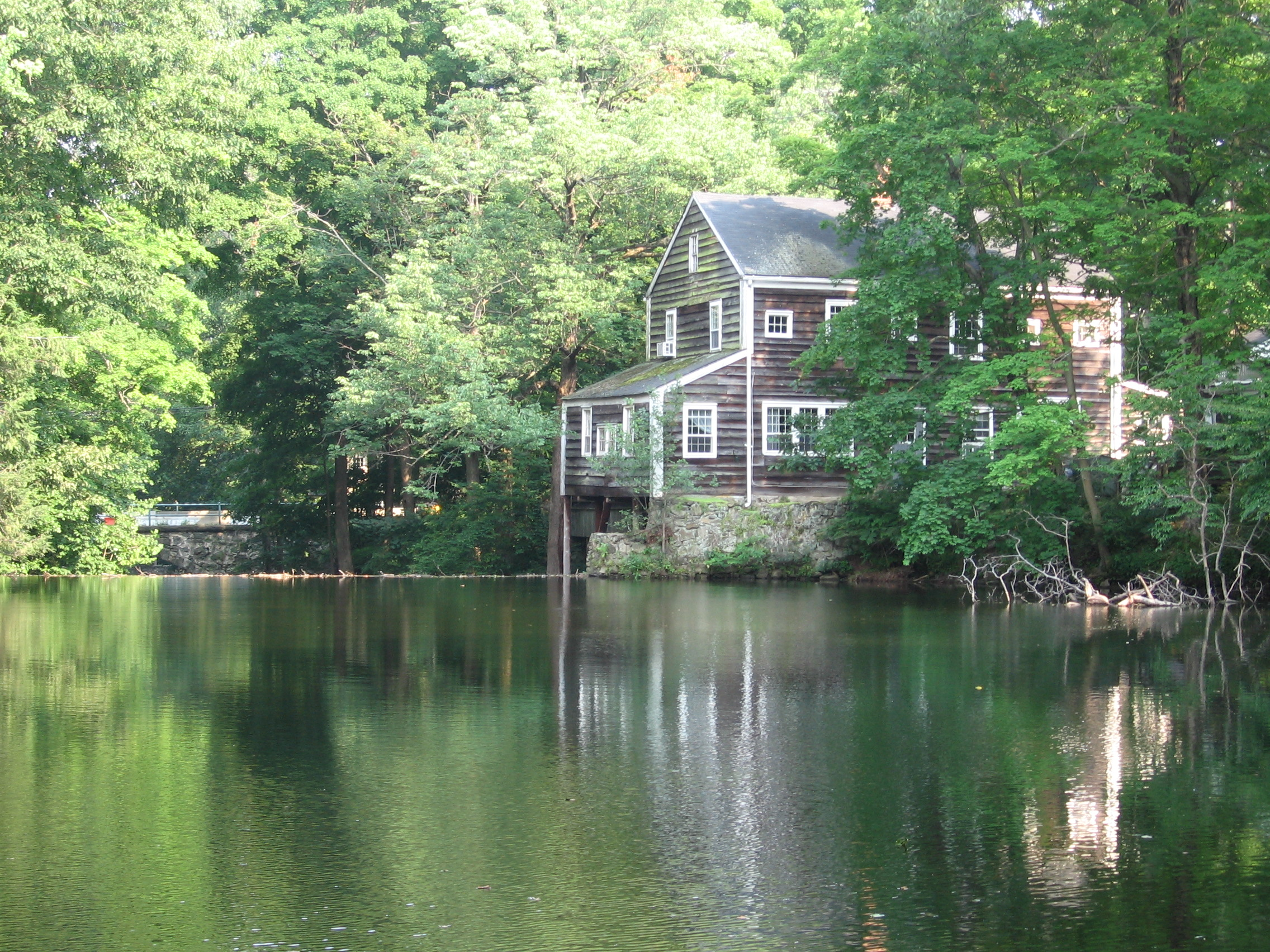 Mill pond and grist mill (where Spencer Tracy held the waffle-eating record) at the Silvermine Tavern, in Silvermine, Connecticut, a hamlet in parts of Norwalk, New Canaan and Wilton, Connecticut.